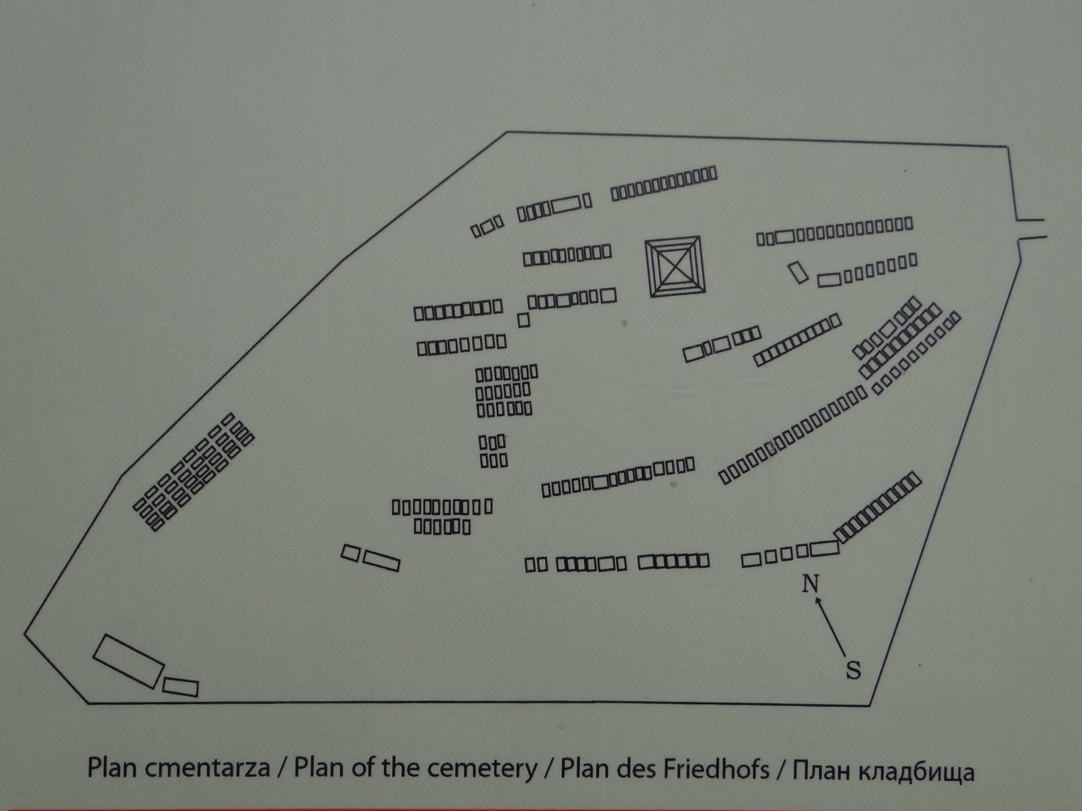 World War I Cemetery nr 185 in Lichwin